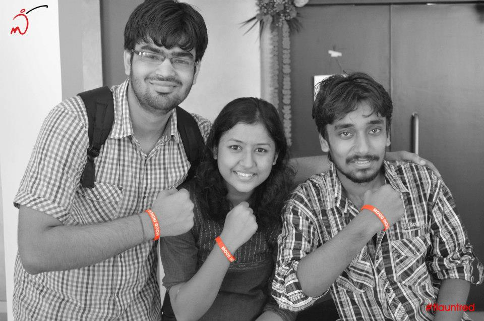 Students sporting their support for the cause.